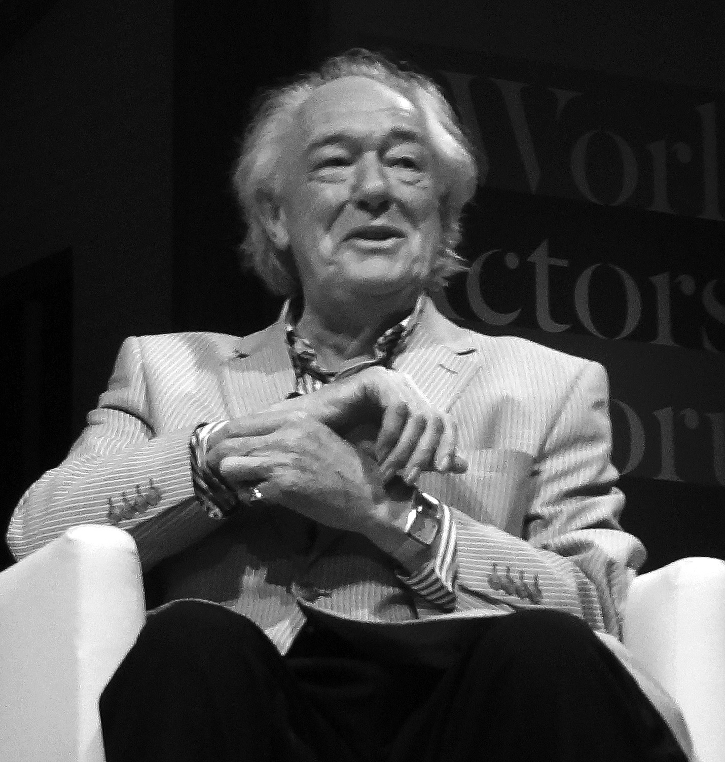 On stage Q&A